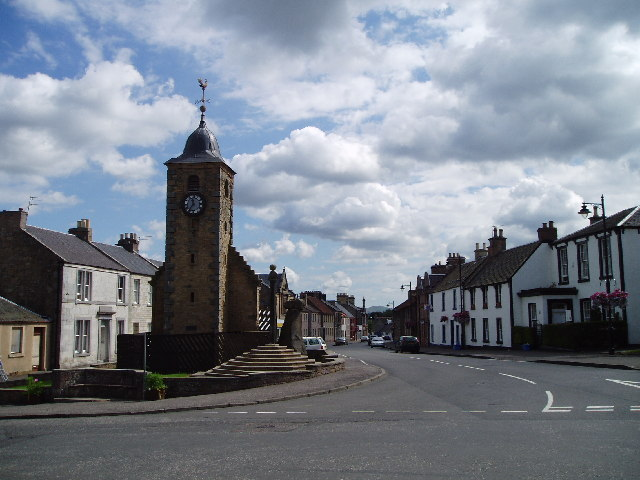 Clackmannan Market Place